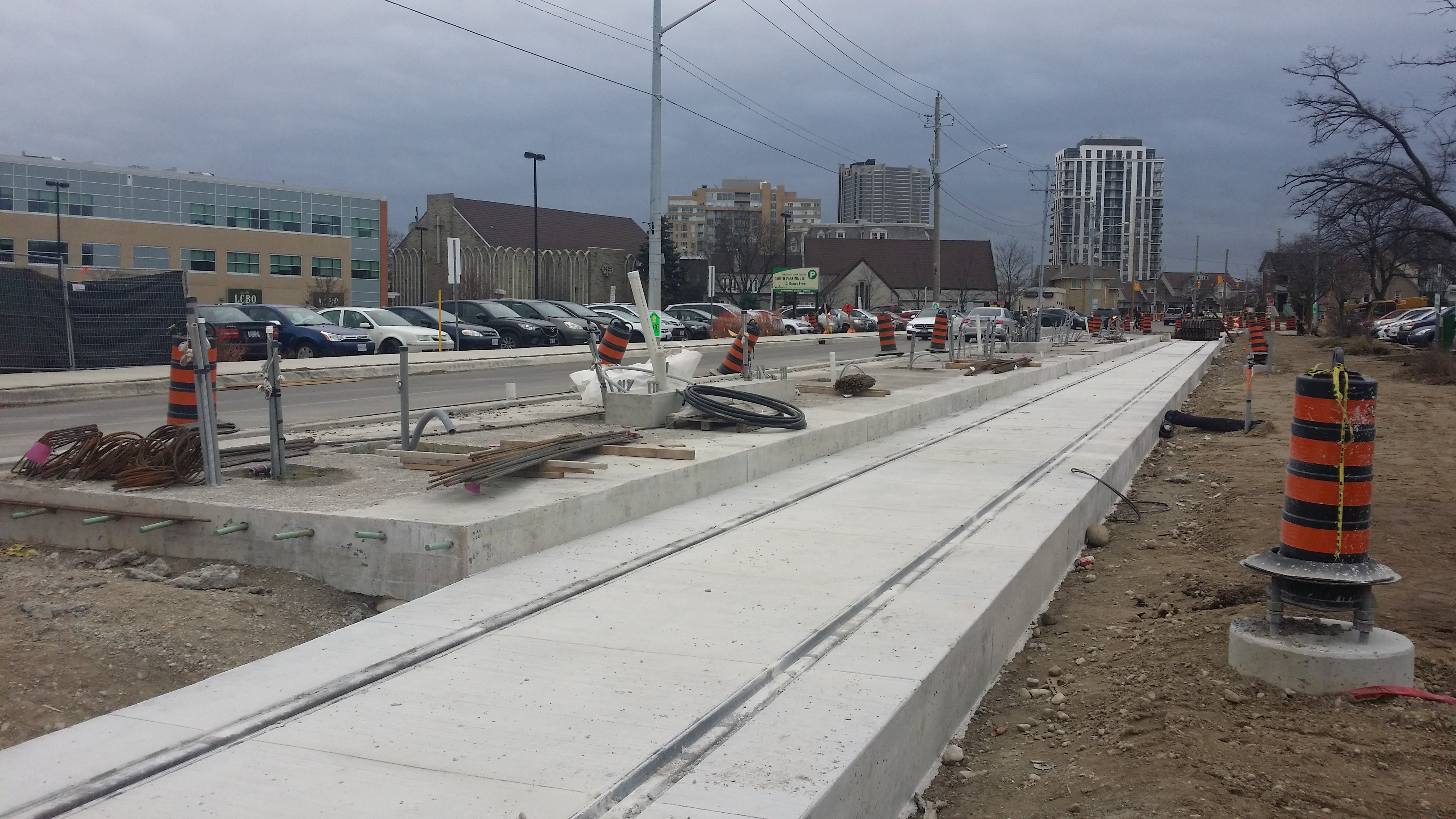 The future Willis Way station of Ion rapid transit, in its under-construction state, December 12, 2015.